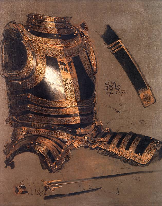 Armor of Stefan Batory